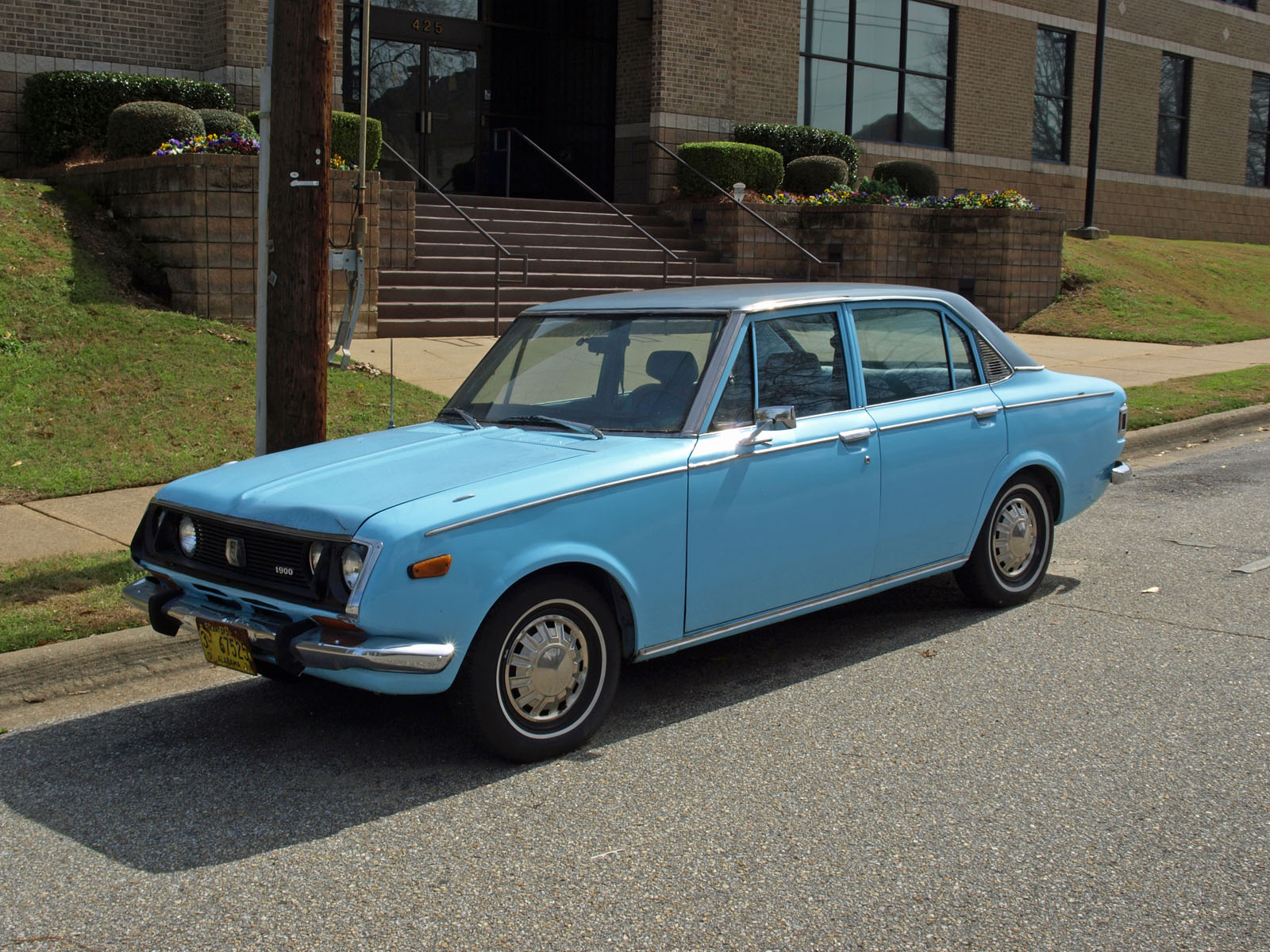 A Toyota Corona Mark II on Union Street in Montgomery, Alabama